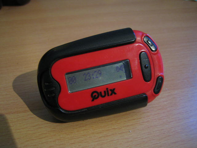 Quix Pager